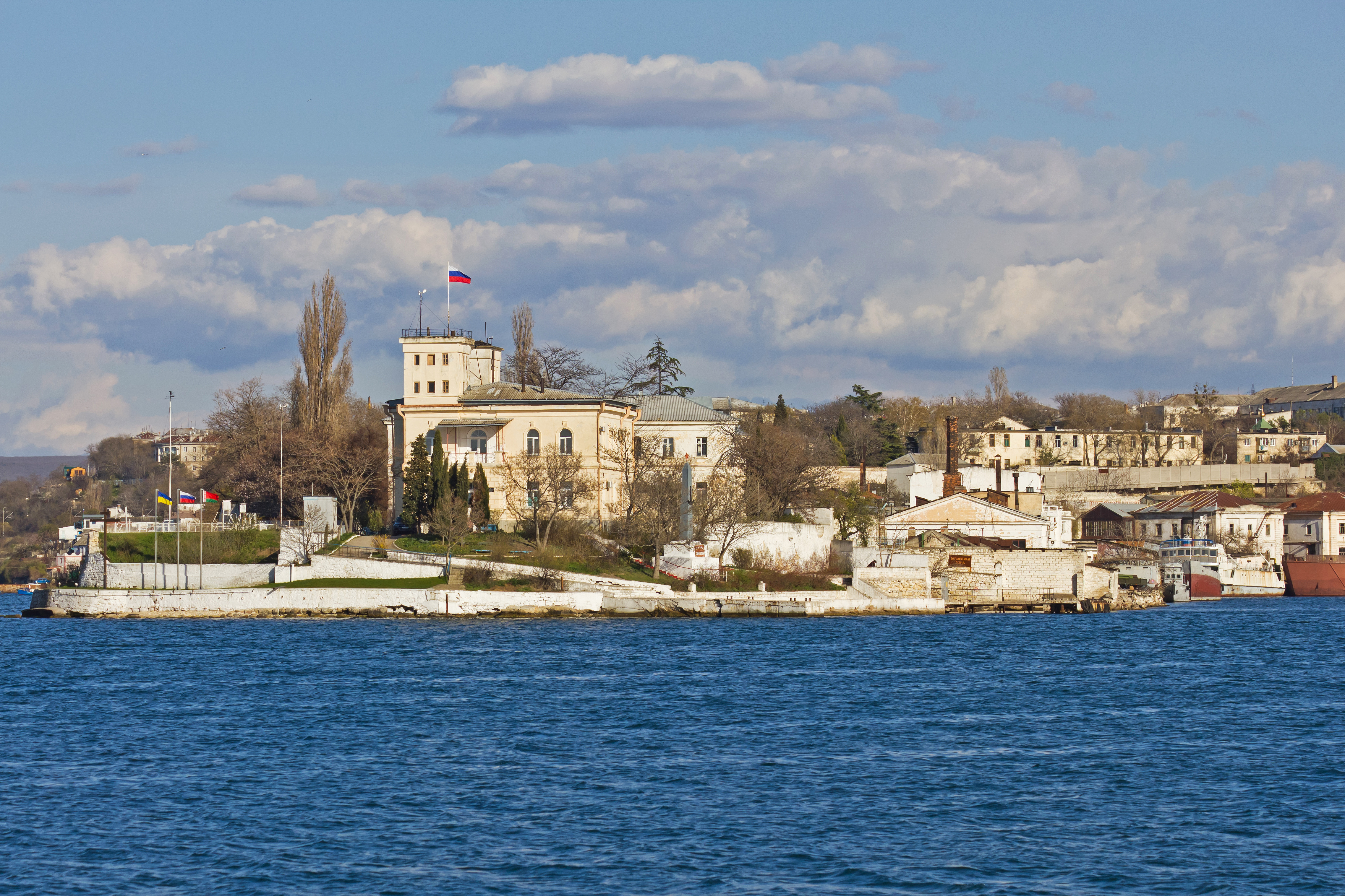 View from the ferry to the Pavlovsky Cape (at the left: the weather station) in the Federal City of Sevastopol. Crimean peninsula.